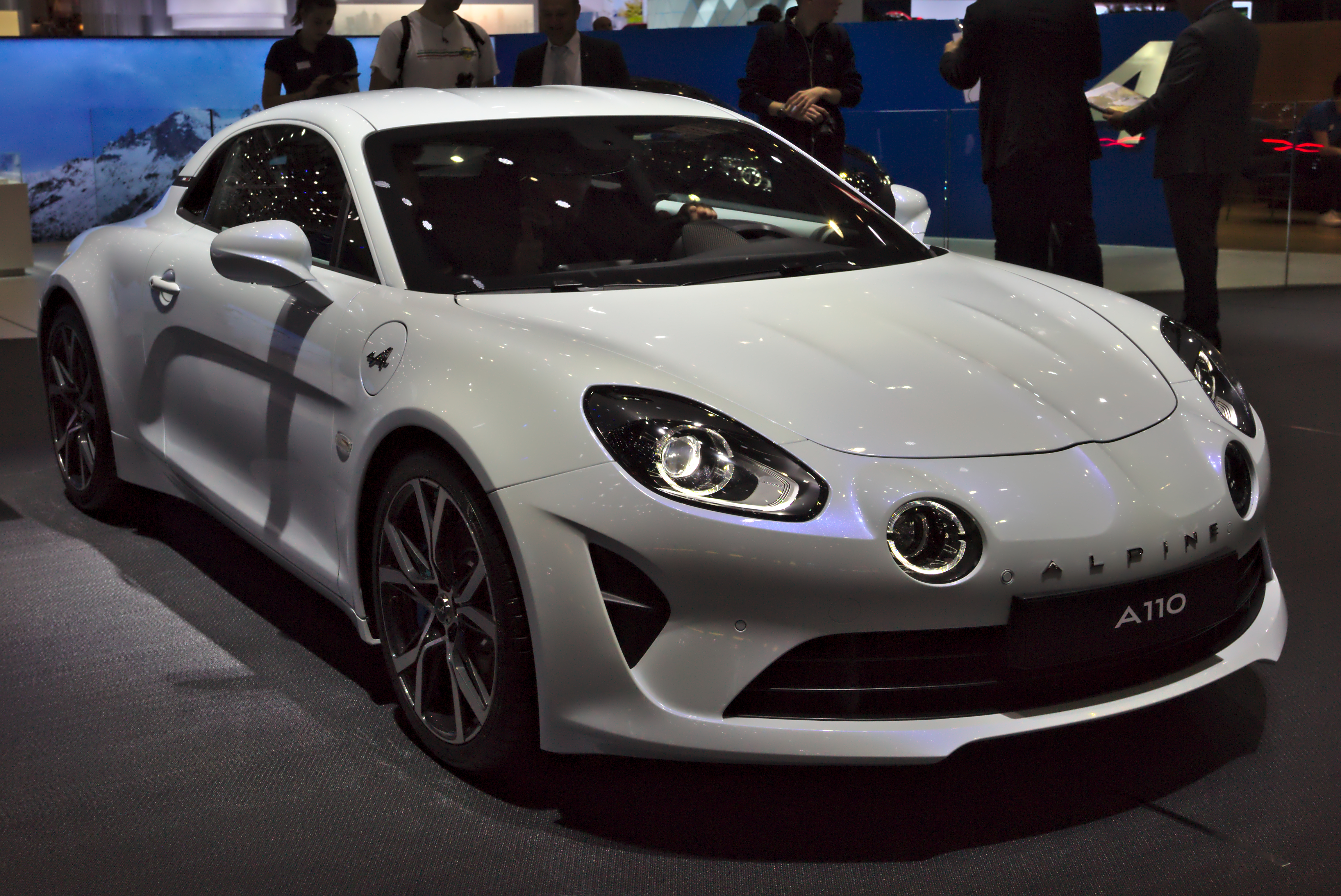 Alpine A110 Pure at Geneva Motorshow 2018